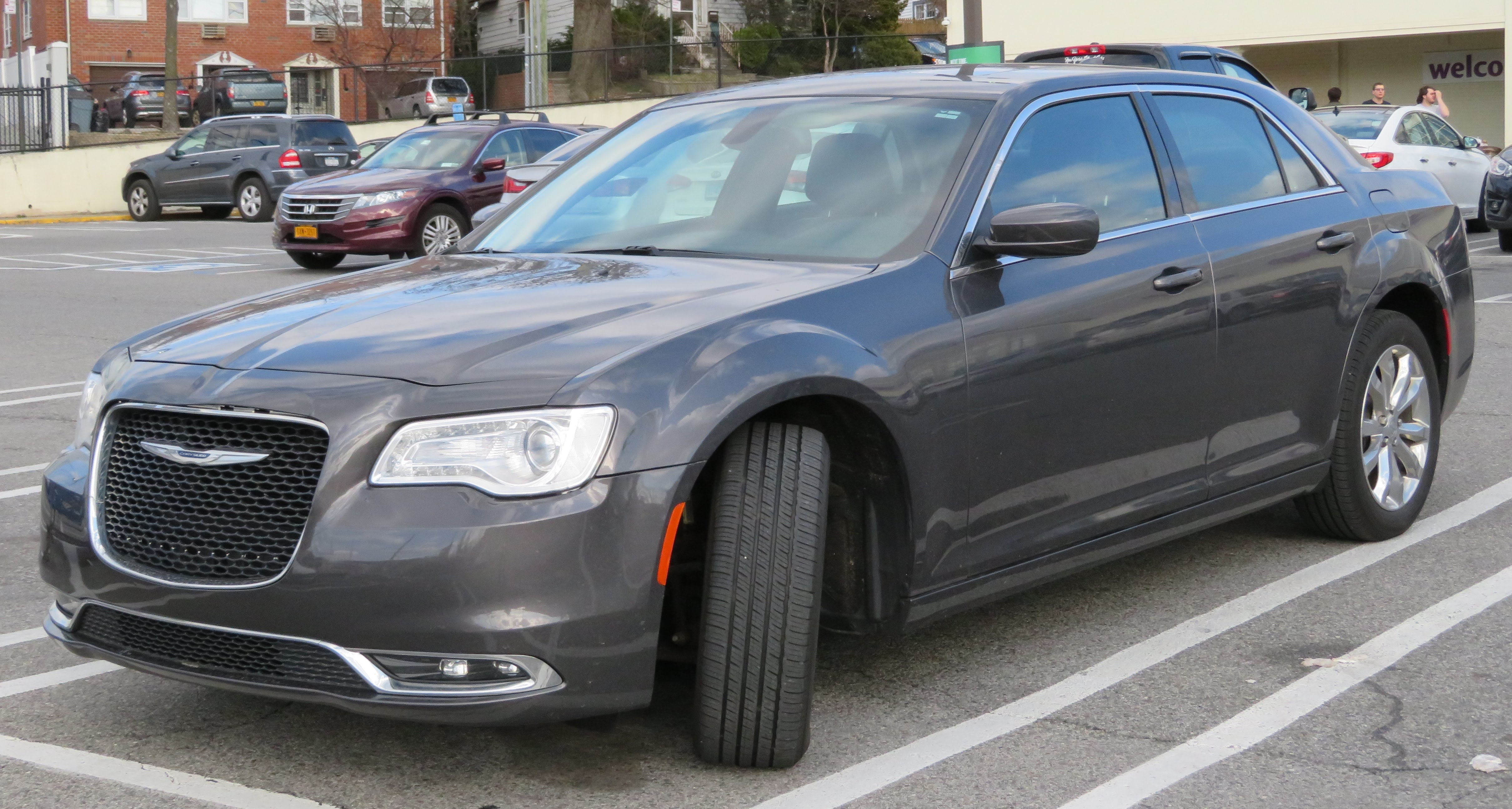 In Queens, New York